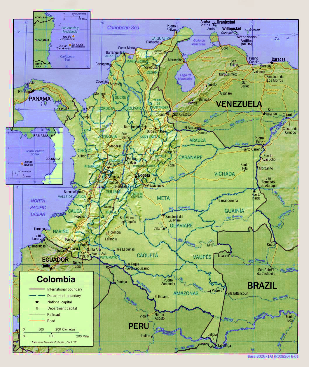 Shaded relief map of Colombia.